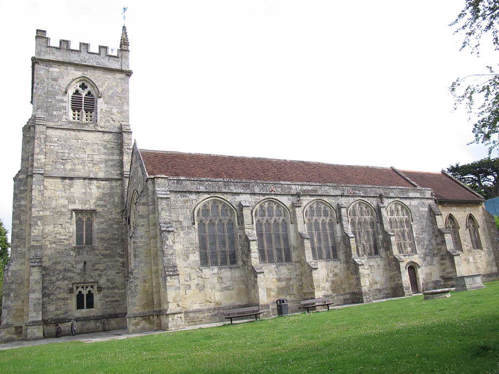 Salisbury Arts Centre (formerly St Edmunds church)